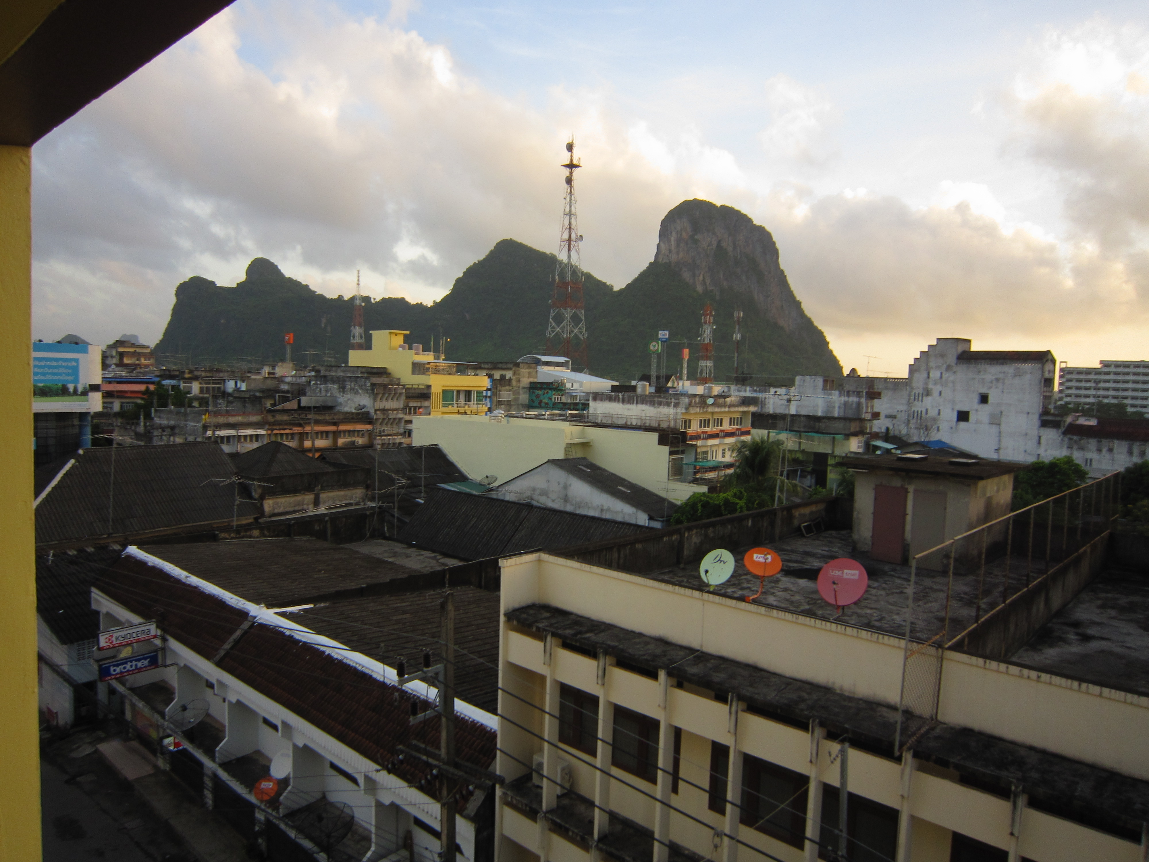 Khao Ok Thalu and Phatthalung